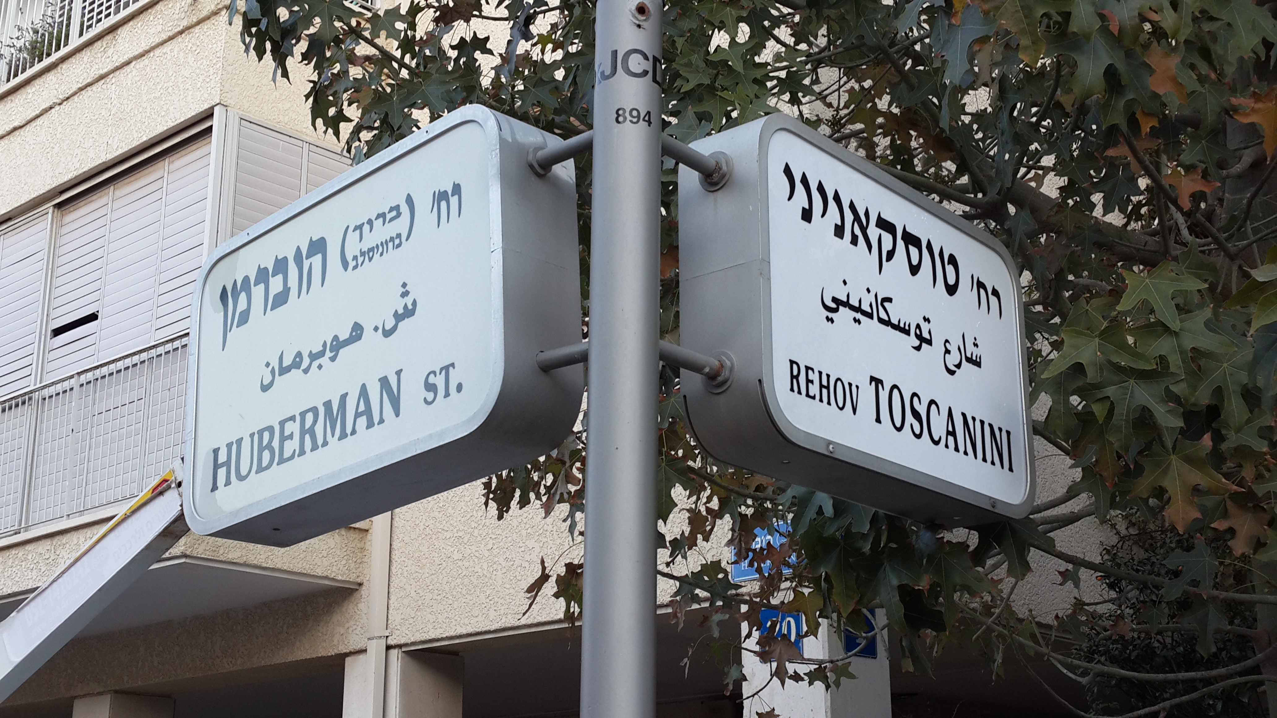 Bronisław Huberman and Arturo Toscanini Streetcorner in Tel Aviv